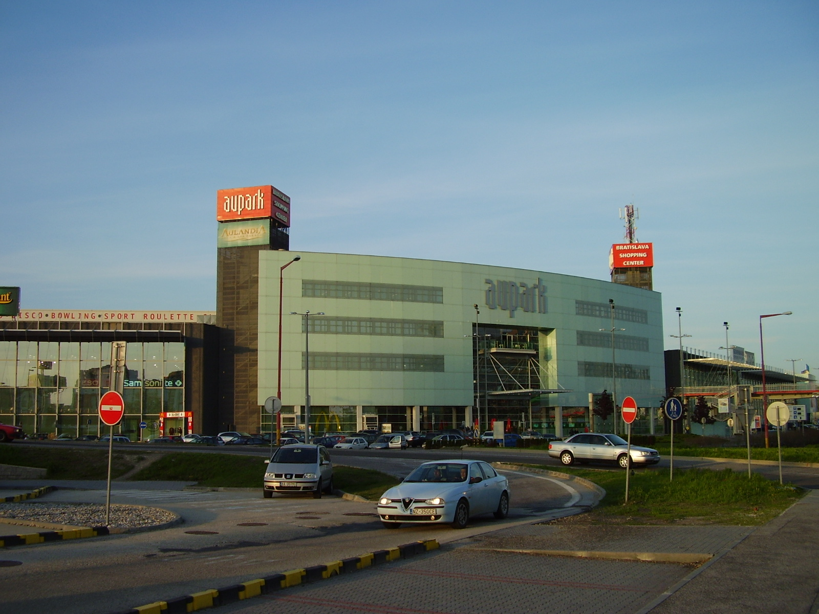 Aupark in the day